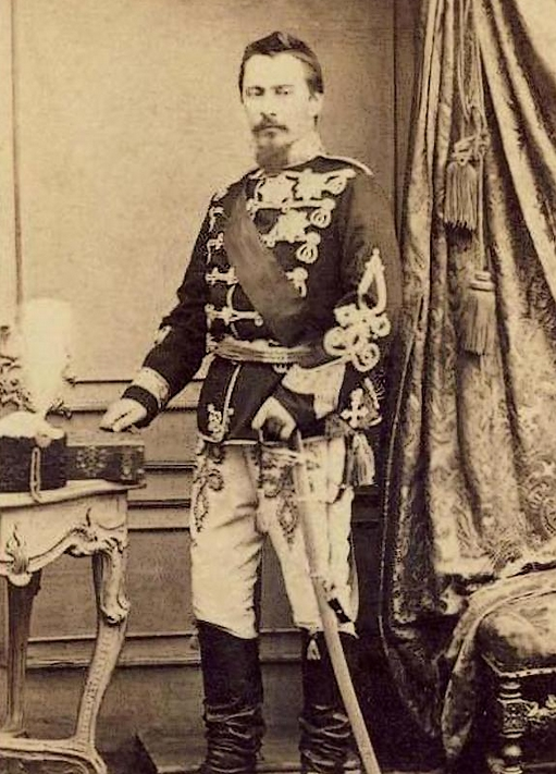 Alexandru Ioan Cuza portrait by Carol Popp de Szathmary